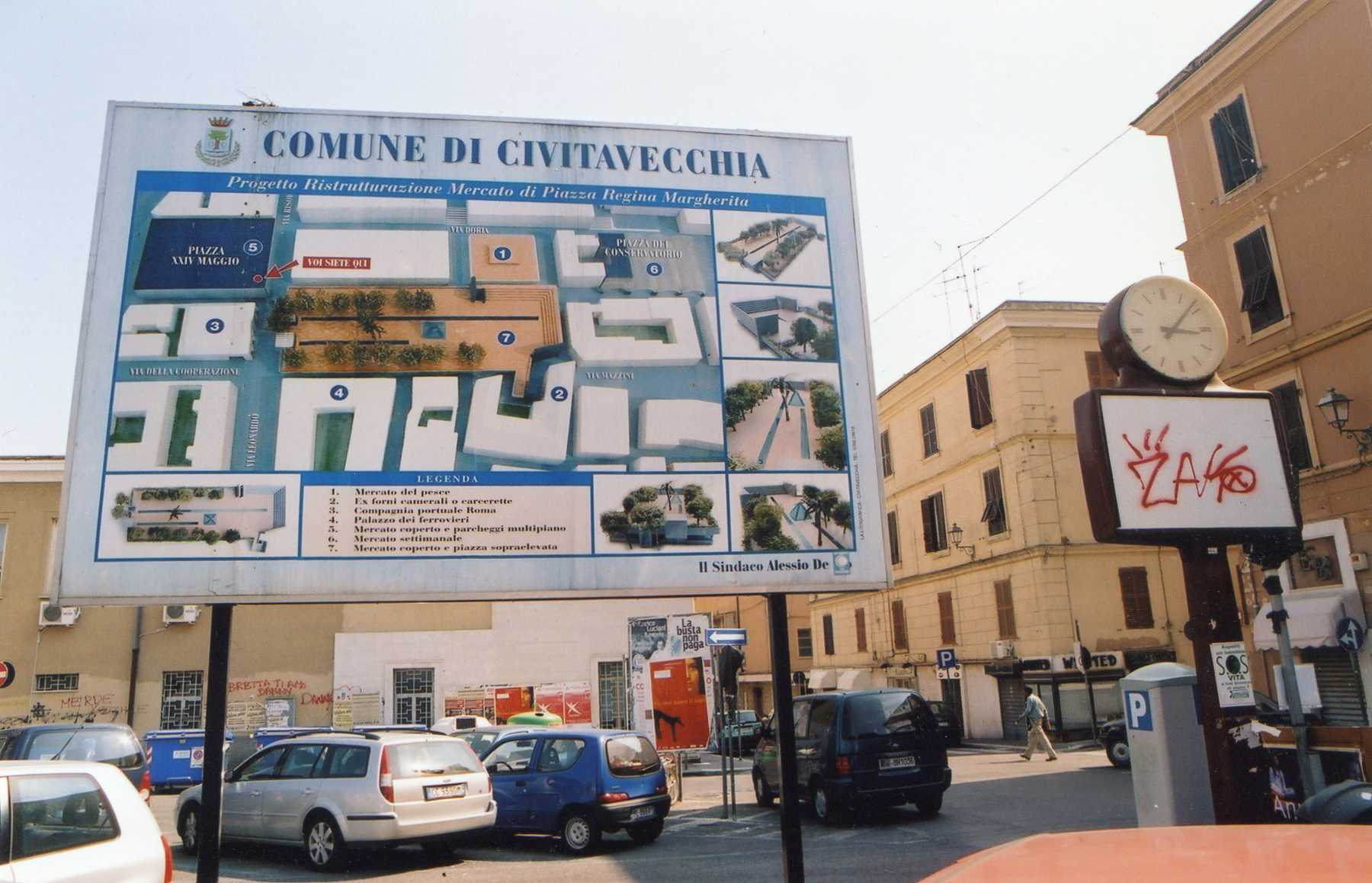 Civitaveccia,Italy.Redevelopment.